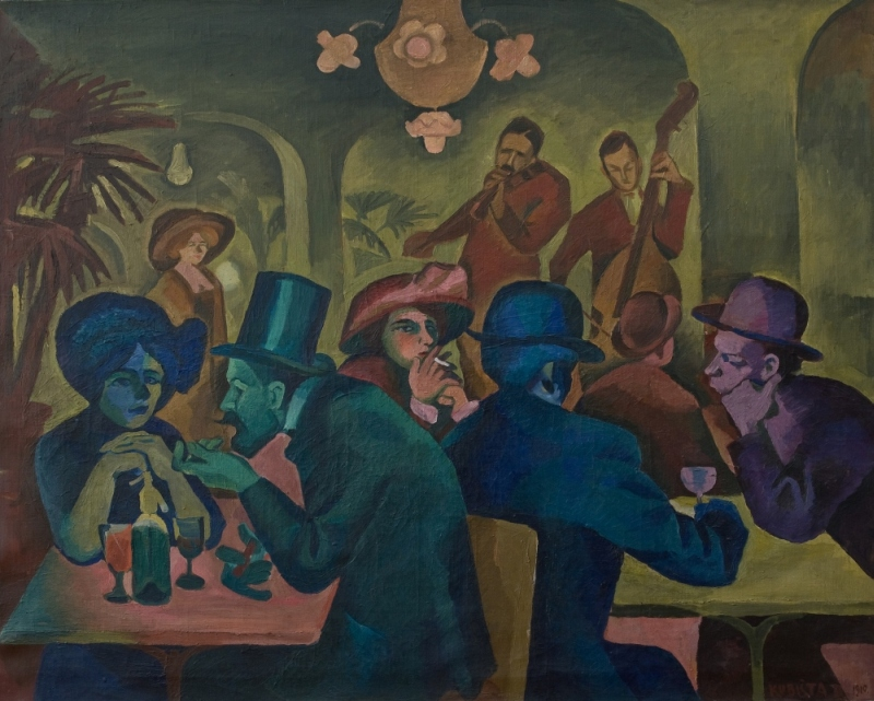 Bohumil Kubišta Caffé (1910) oil, canvas, 110x138 cm collection of Gallery of Modern Art in Hradec Králové